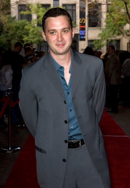 Eddie Kaye Thomas at the Nick and Norah's Infinite Playlist red carpet premiere